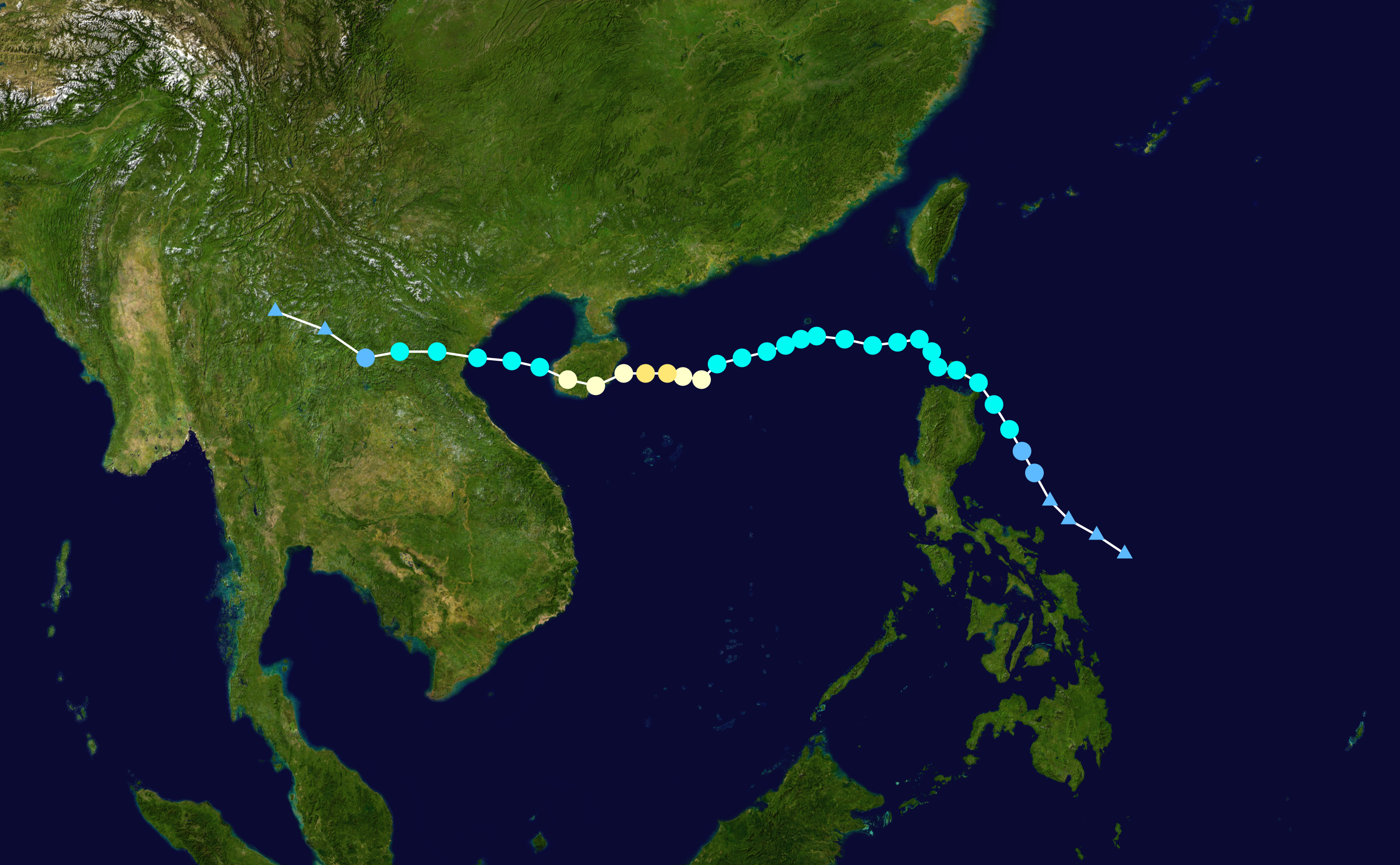 Typhoon Damrey 2005 track. Uses the color scheme from the Saffir-Simpson Hurricane Scale.